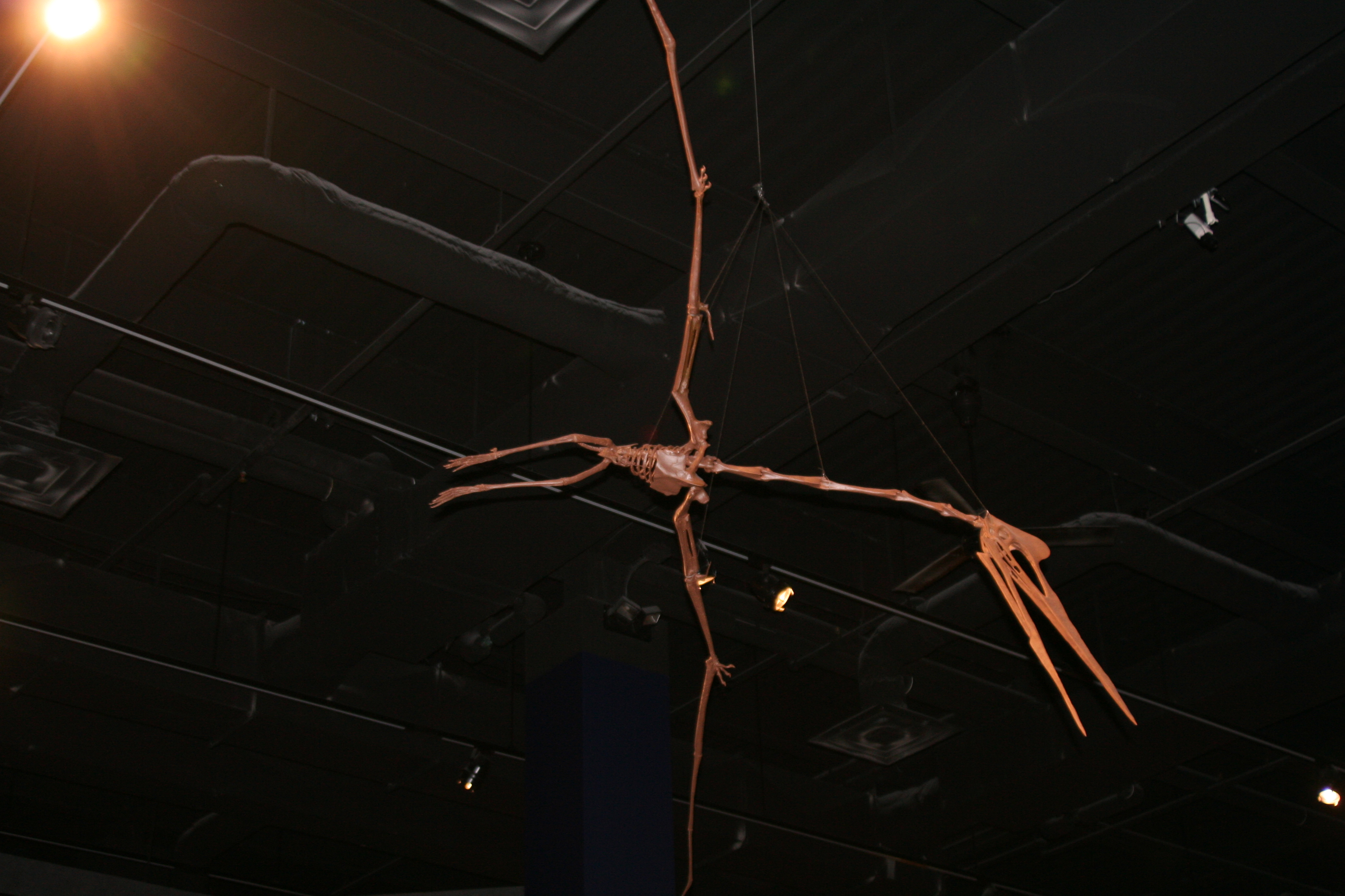 A Quetzalcoatlus at the Burpee Museum of Natural History in Rockford, Illinois, USA. Size: wingspan of 12 ft Weight: 40-45 lbs when alive